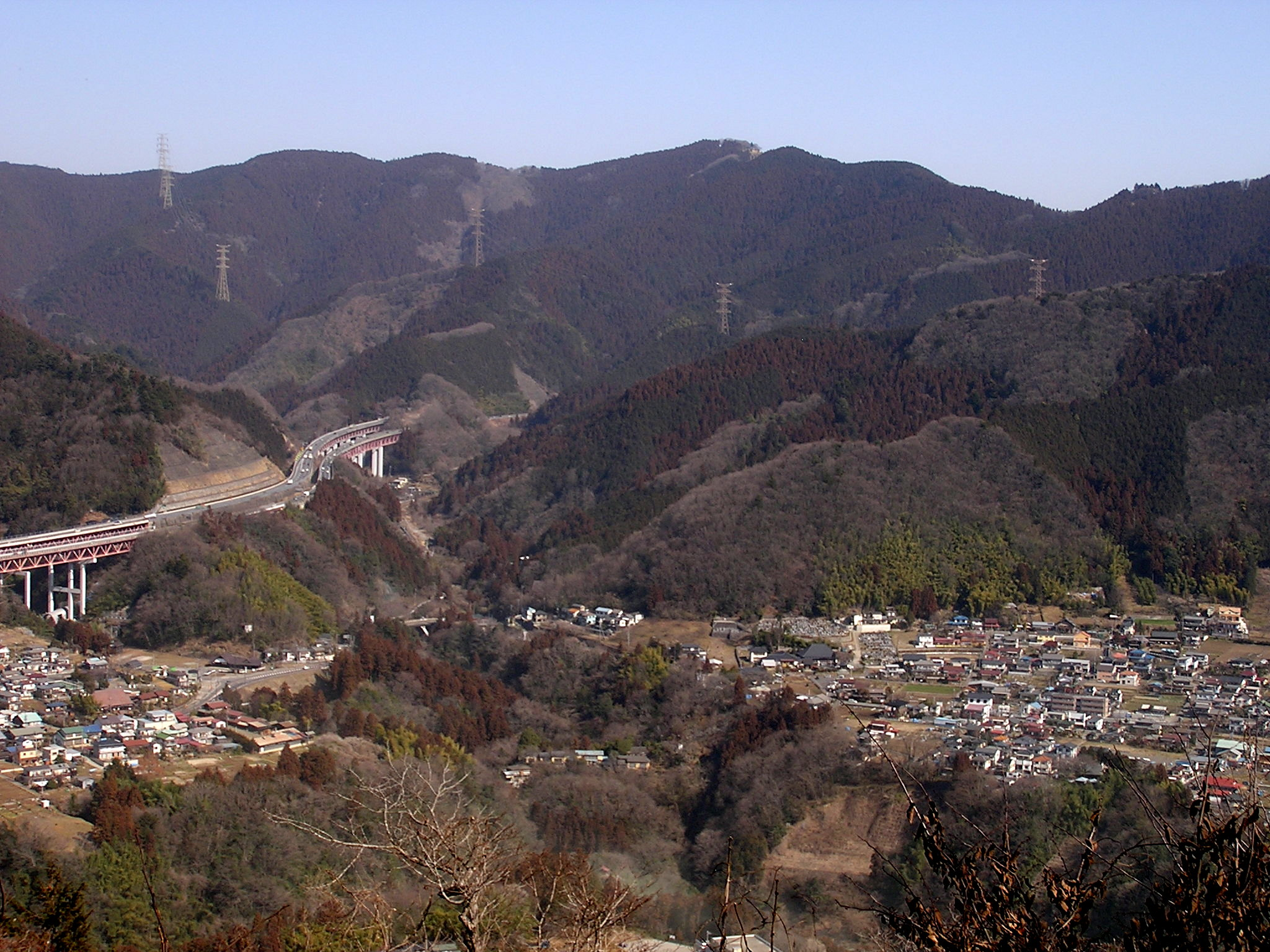 Mount Kagenobu seen from the SSW.